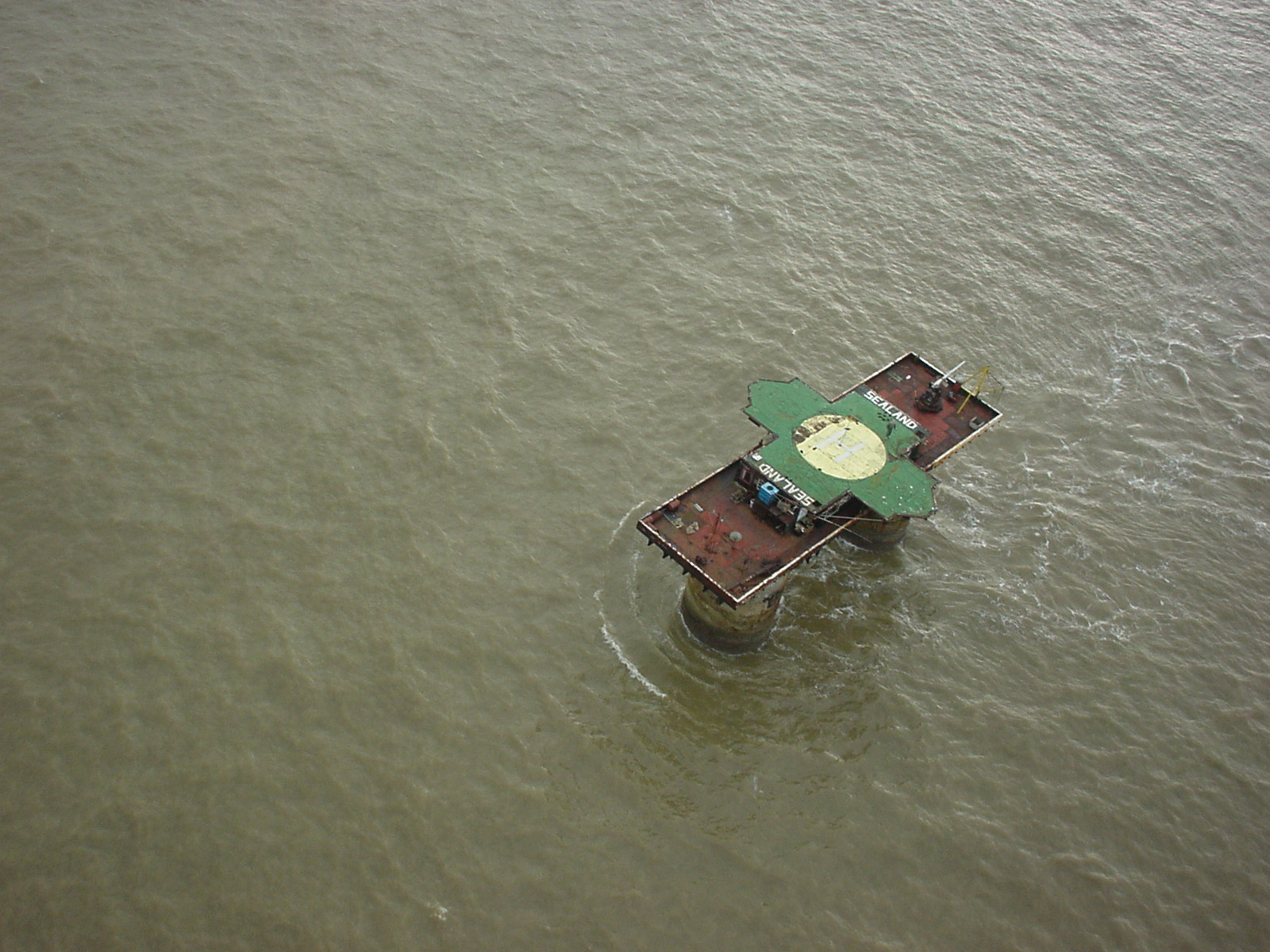 Sealand from a helicopter.